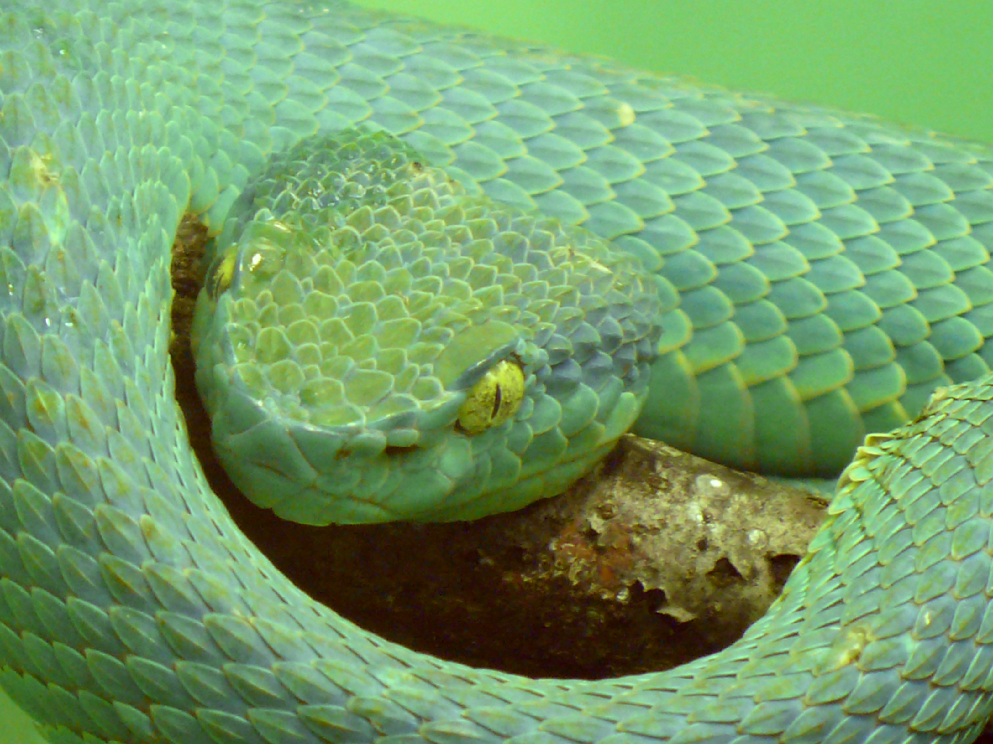 Side-striped palm-pitviper (Bothriechis lateralis)